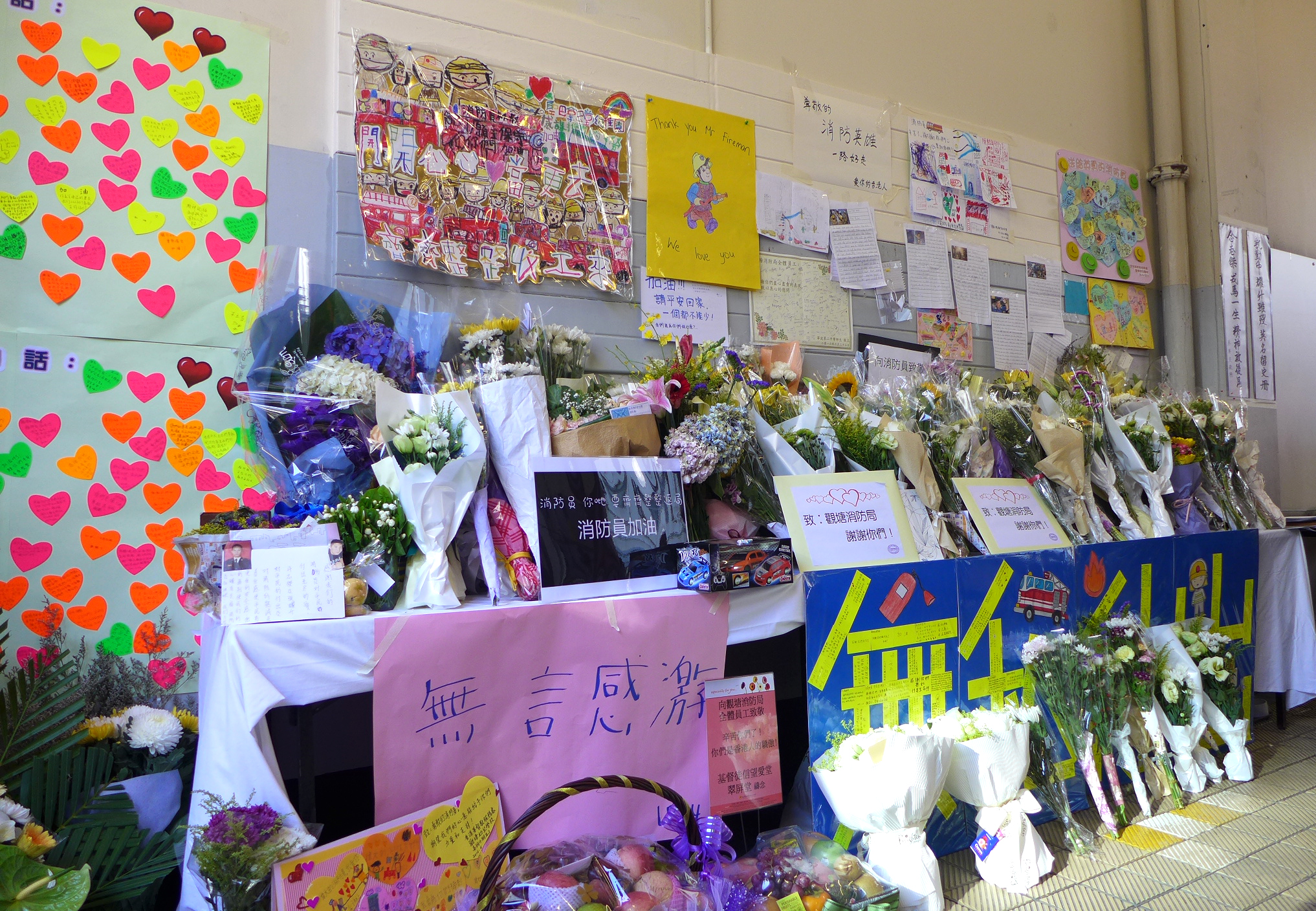 Kwun Tong Fires Station Memorial message